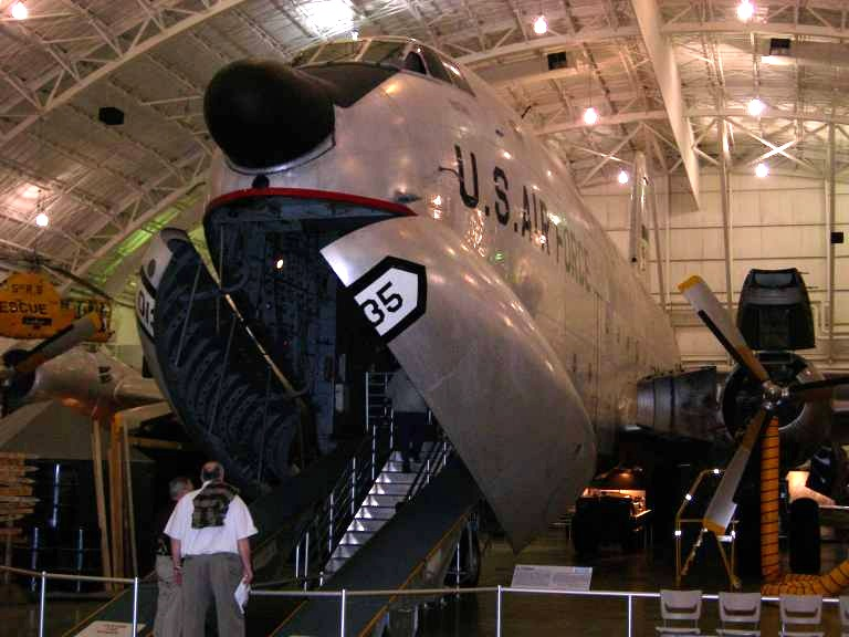 C-124 Globemaster at the National Museum of the United States Air Force